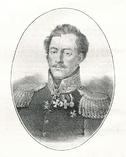 Argamakov, Ivan Andreyevich